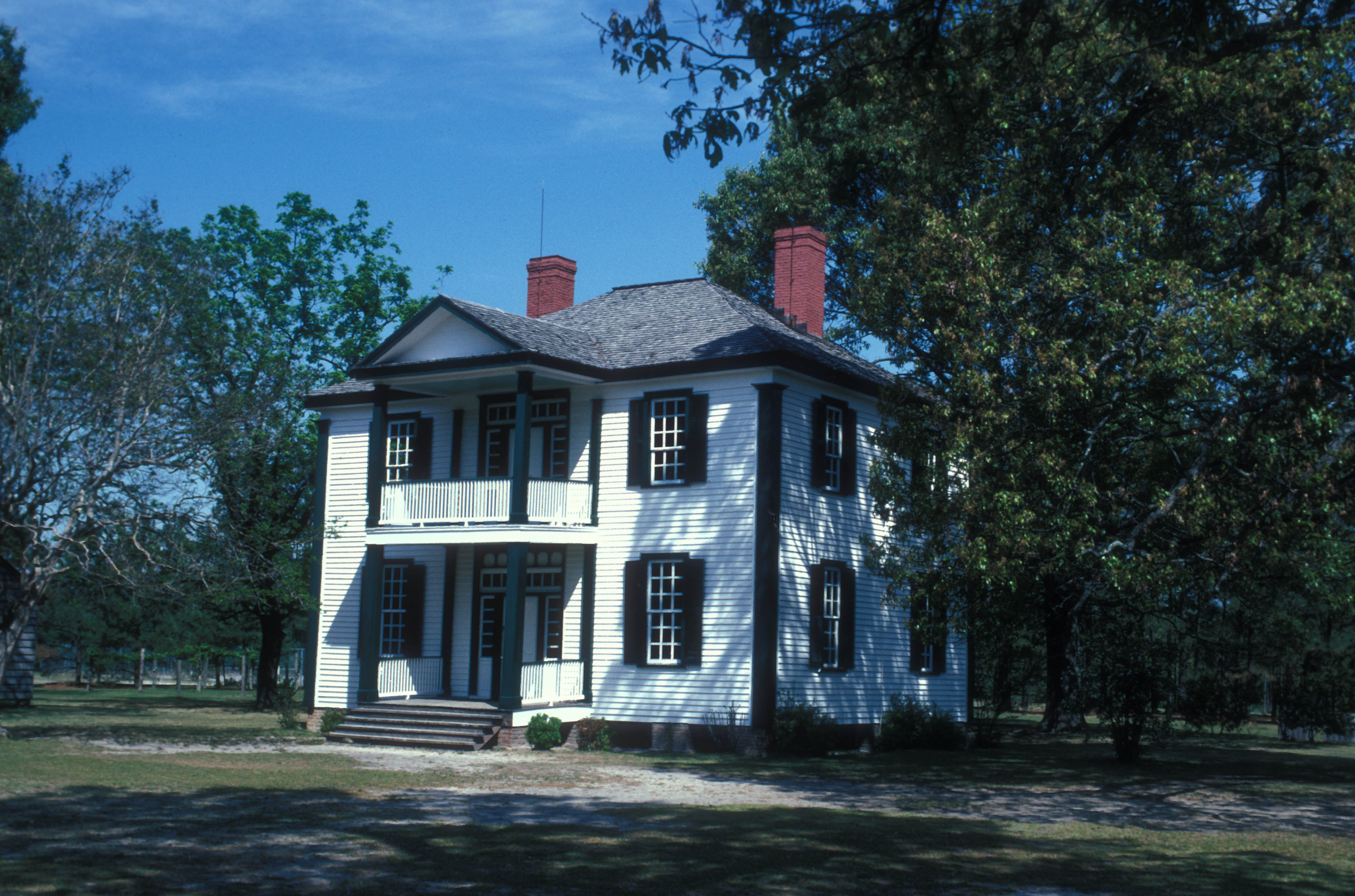 USED AS A UNION HOSPITAL DURING THE BATTLE OF BENTONVILLE